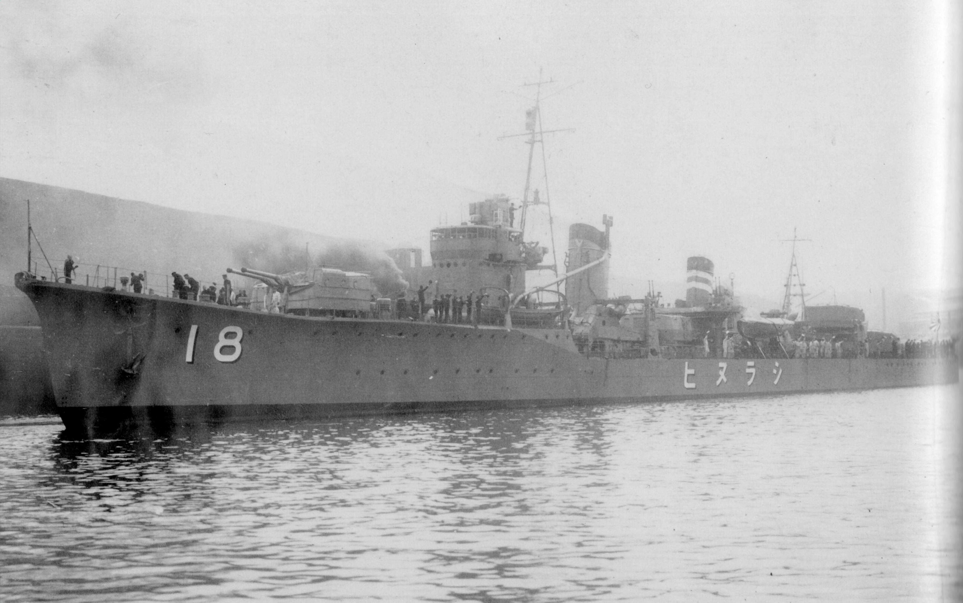 Imperial Japanese Navy Destroyer Shiranuhi. This pre-1945 image is believed to be copyright-free, as it is a Japanese photograph older than 50 years. If copyright exists in this image, use here is asserted to be fair use. Image date: 20 December 1939 Found at: [1] According to Japanese Copyright Law (June 1, 2018 grant) the copyright on this work has expired and is as such public domain. According to articles 51, 52, 53 and 57 of the copyright laws of Japan, under the jurisdiction of the Government of Japan works enter the public domain 50 years after the death of the creator (there being multiple creators, the creator who dies last) or 50 years after publication for anonymous or pseudonymous authors or for works whose copyright holder is an organization. Note: The enforcement of the revised Copyright Act on December 30, 2018 extended the copyright term of works whose copyright was valid on that day to 70 years. Do not use this template for works of the copyright holders who died after 1967. Use PD-Japan-oldphoto for photos published before December 31, 1956, and PD-Japan-film for films produced prior to 1953. Public domain works must be out of copyright in both the United States and in the source country of the work in order to be hosted on the Commons. The file must have an additional copyright tag indicating the copyright status in the United States. See also Copyright rules by territory.